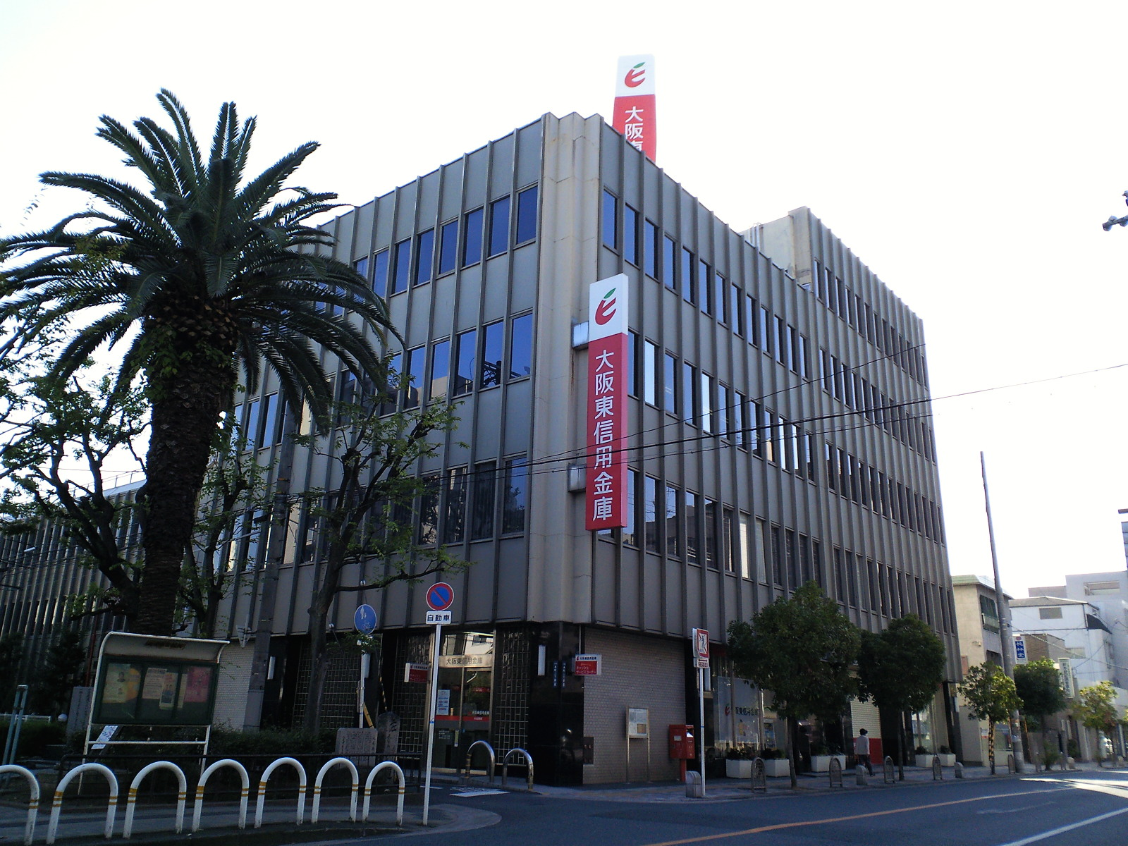 Headquarters of Osaka Higashi Shinkin Bank in Yao, Osaka